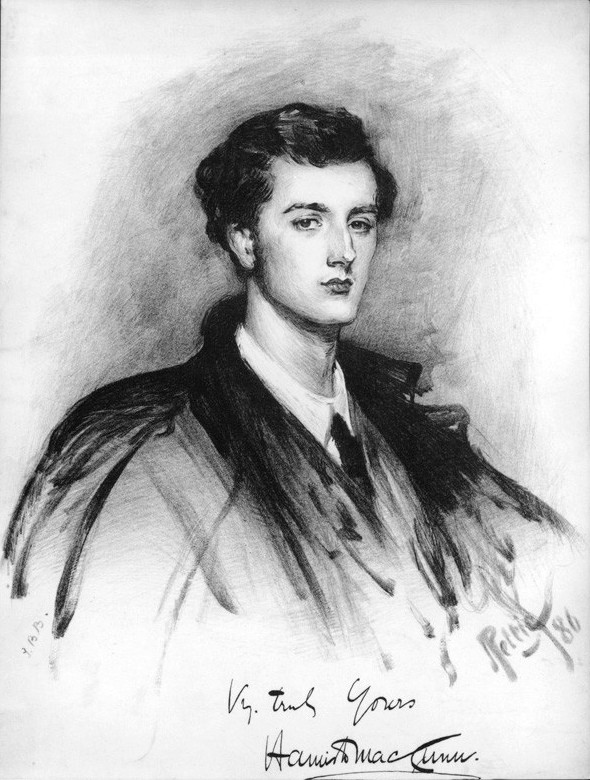 Depicted person: Hamish Maccunn